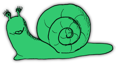 Freiberger Schneck